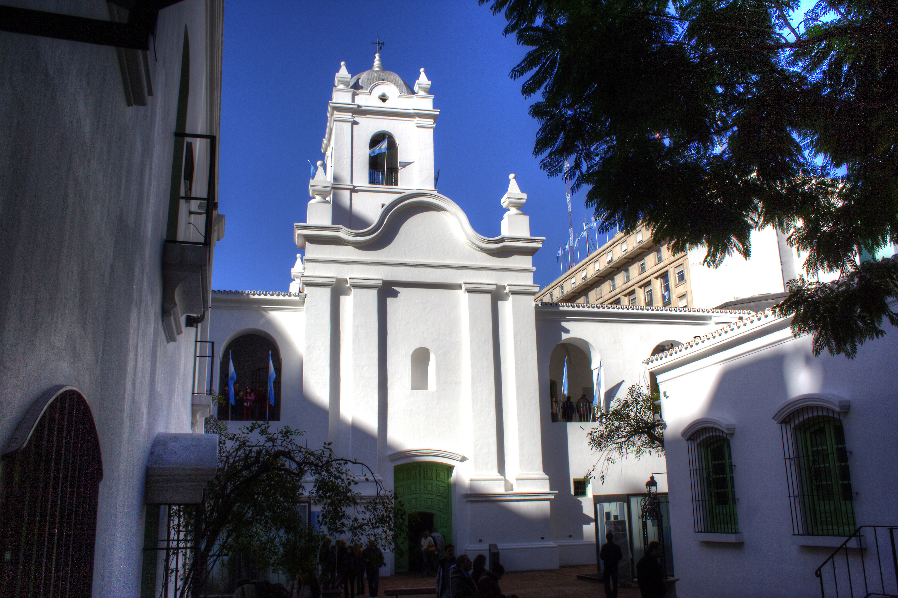 View of the rear of the main Cabildo building from the Patio.